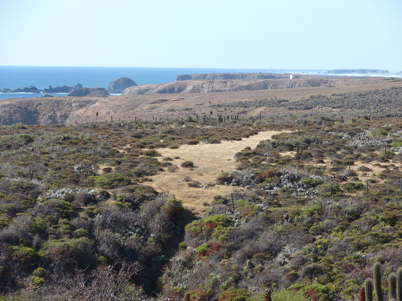 Marine terrace just south of the outlet of Choapa River, Coquimbo Region, Chile.